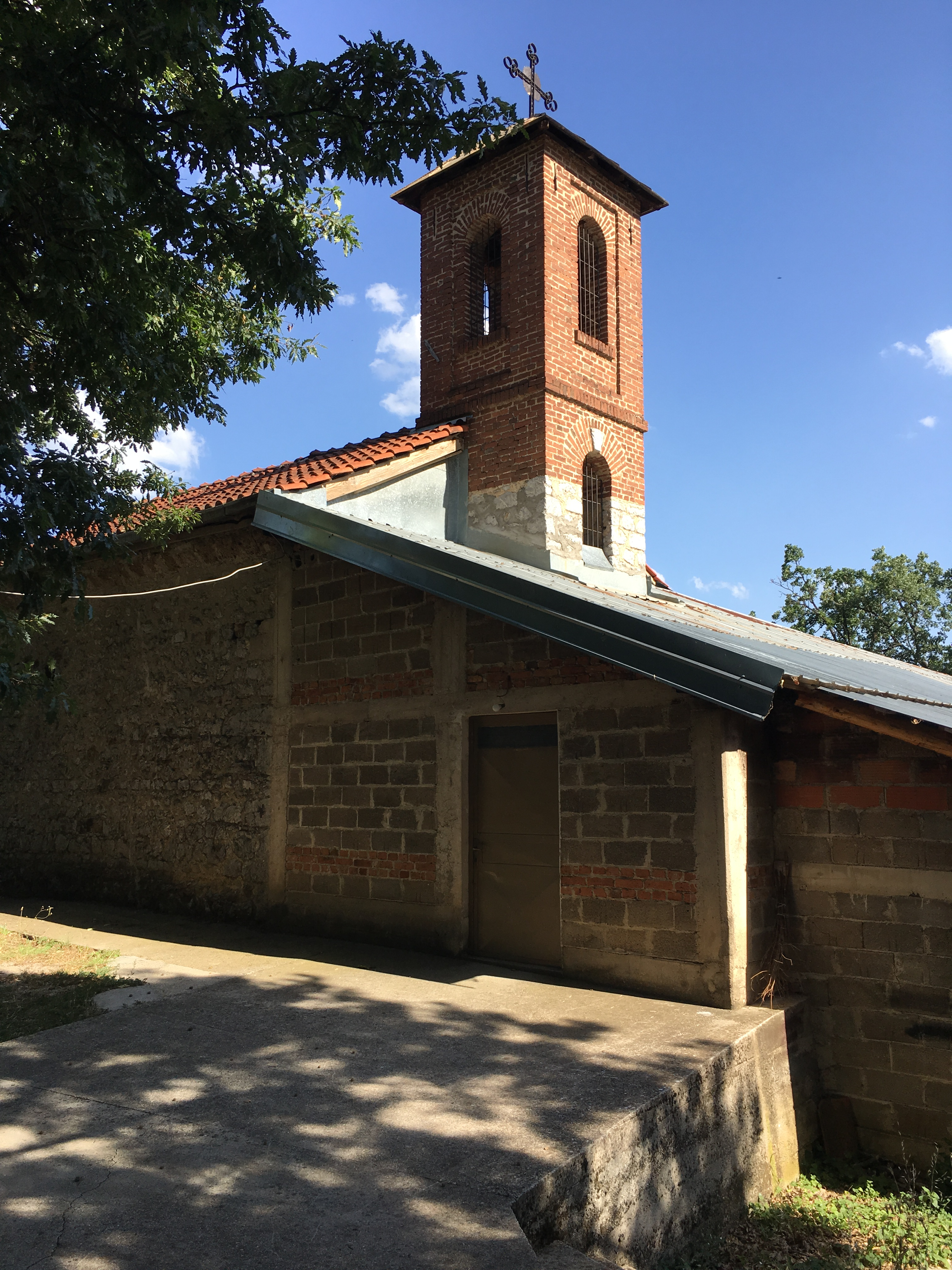 St. Nicholas Church in the village of Labuništa